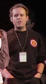 Peter MacNicol at Celebrity Tour at Eagle Base.